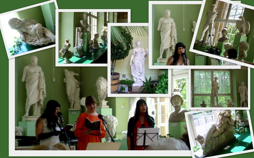 Marlena Zynger - concert at Łazienki Królewskie, Warsaw, 2013